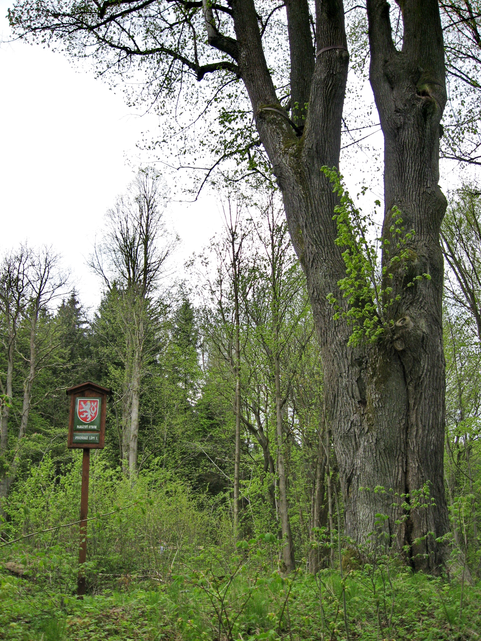 Large-leaved Limes (Tilia platyphyllos) by Pivoň u Mnichova, south-west of Poběžovice, Domažlice District, Czech Republic